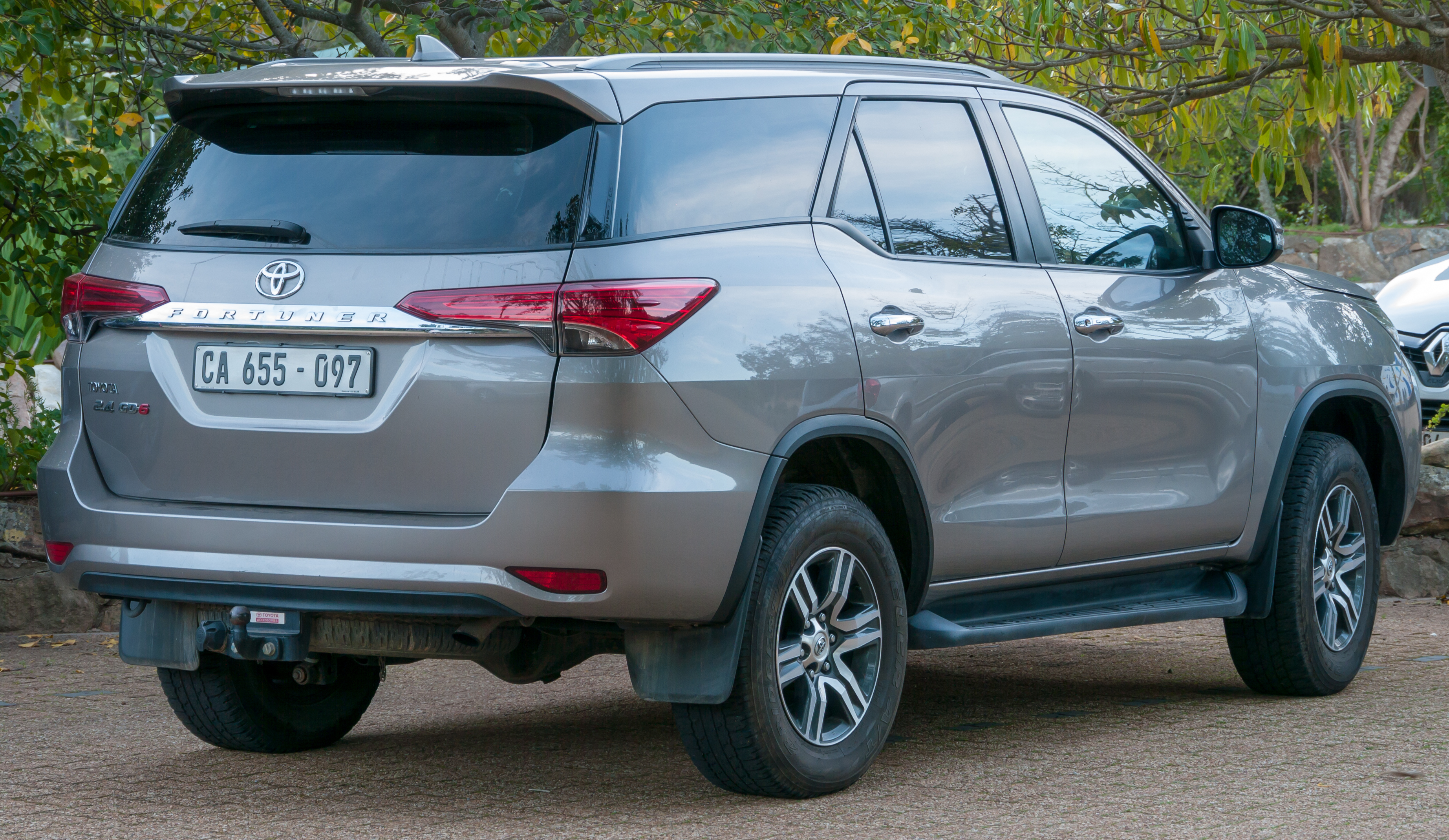 Toyota Fortuner, Cape Town